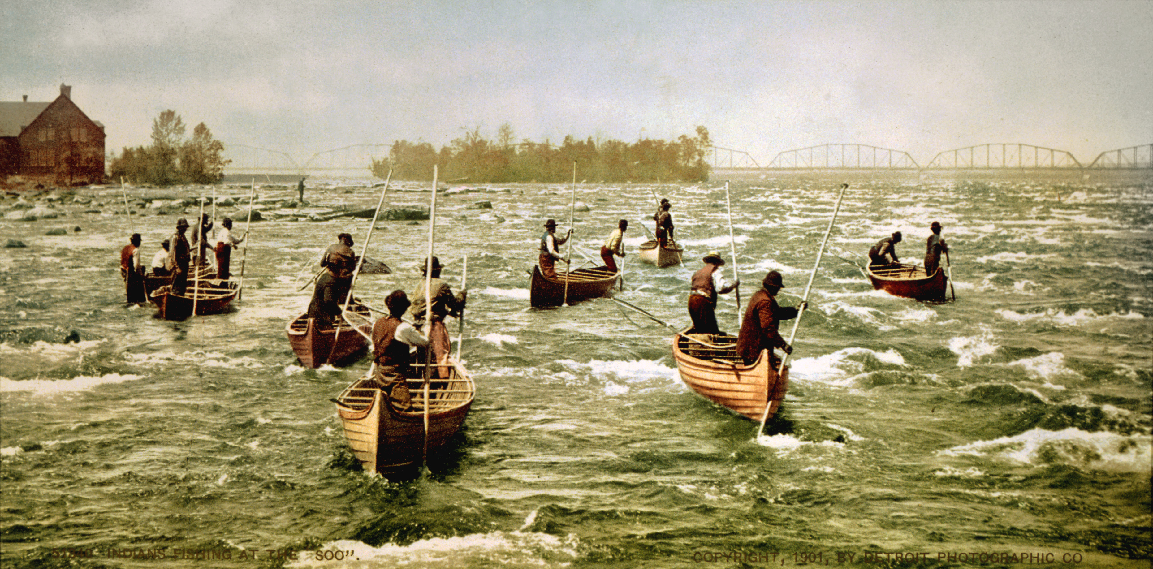 Indians fishing at the "Soo". The Soo likely refers to the twin cities of Sault Sainte Marie, Michigan and Ontario, and the rapids of the St. Mary's River that separates them. The bridge in the background is the Sault Ste. Marie International Railroad Bridge, erected in 1887.